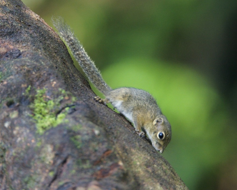 Slender Squirrel Sundasciurus tenuis 14th. June, 2009 Location: Panti Forest, Johor, Malysia 690V8077